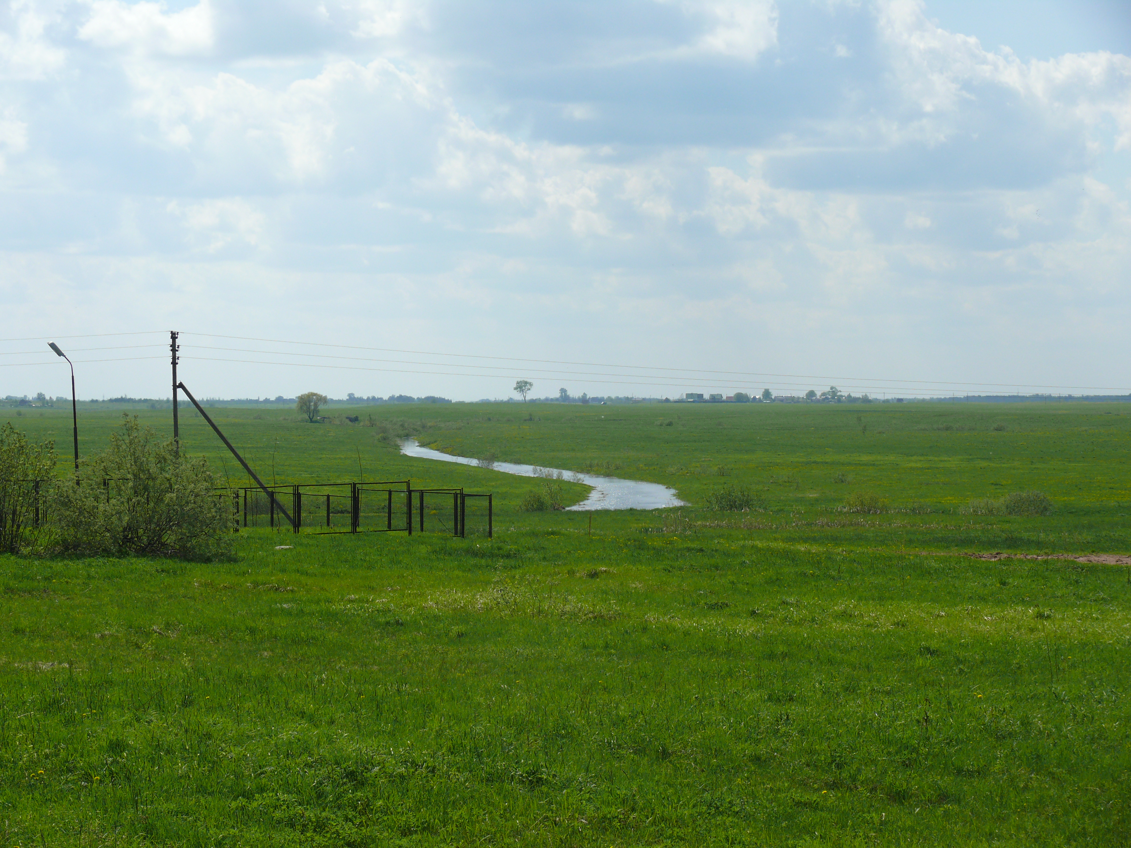 Prost river in Poozerie. Novgorodsky district, Novgorod oblast, Russia